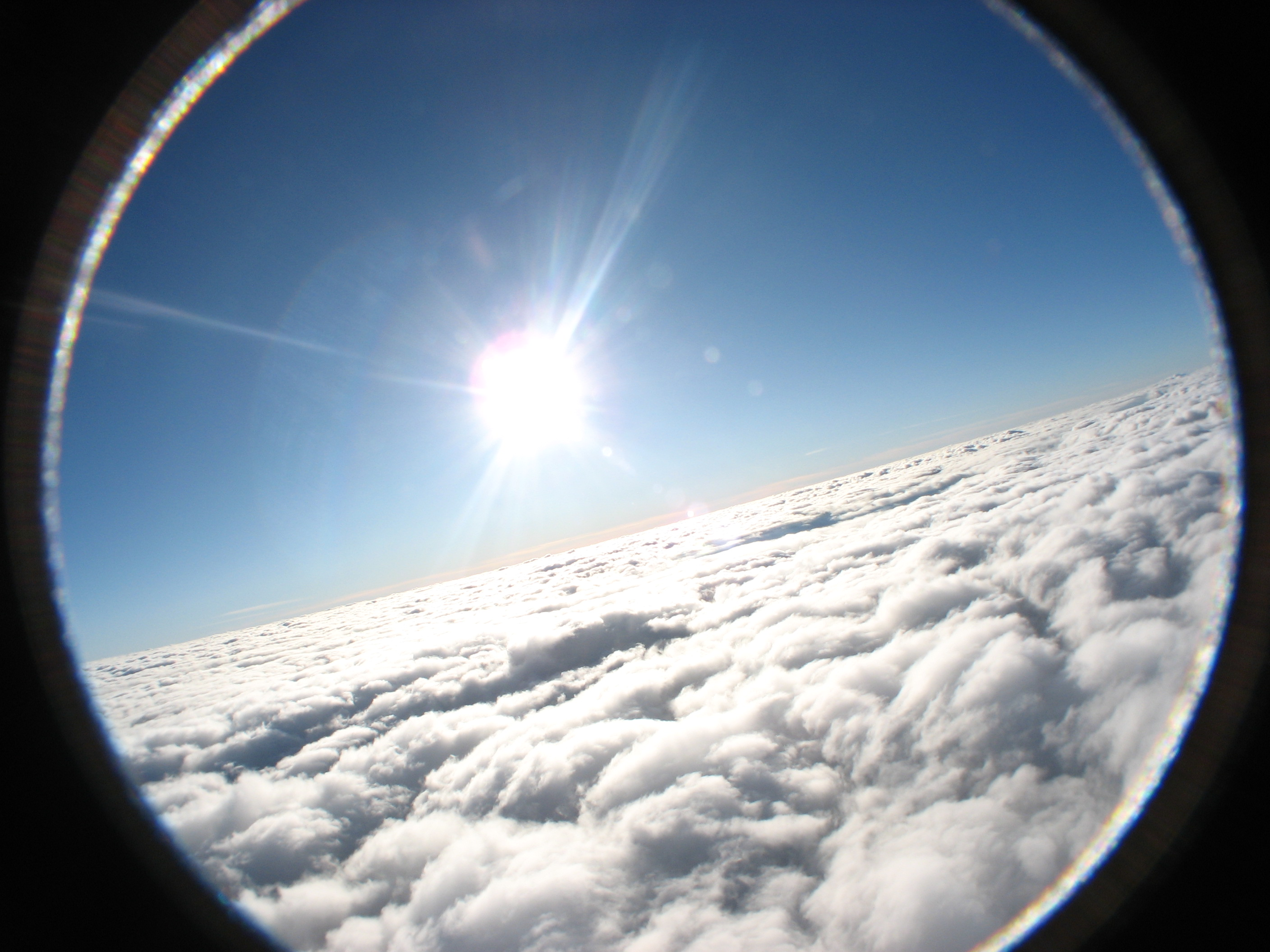 This photo was taken on February 7, 2010 using a Canon PowerShot A700, in a styrofoam cooler taken aloft by a helium-filled surplus weather balloon. Attributed to Spacebridge.